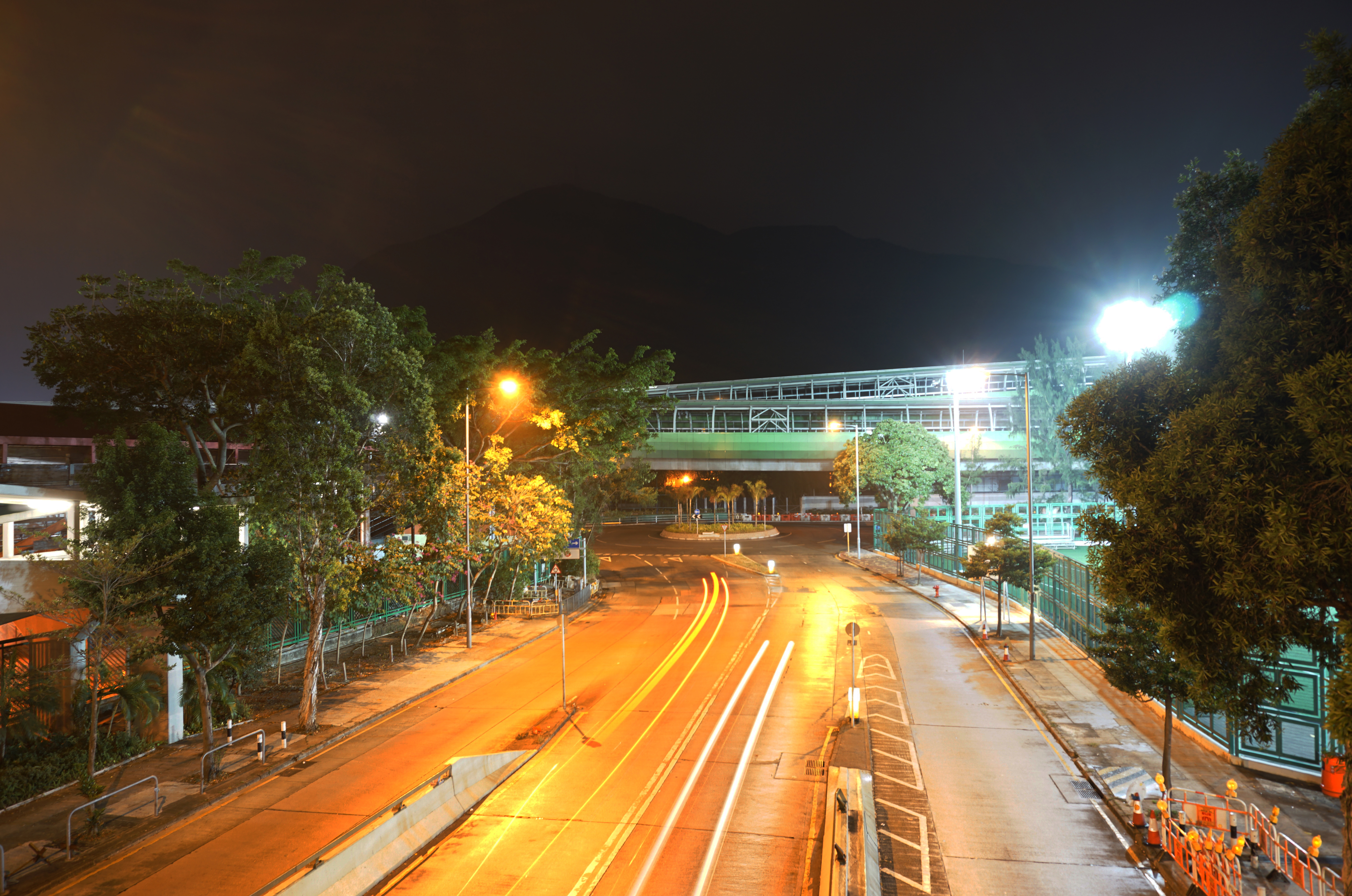 Ocean Park Road in Wong Chuk Hang, Hong Kong.